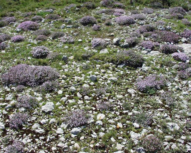 (en) Garden Thyme (Thymus vulgaris), in France (Bouche du Rhône), a photography originating of the internet site The accord of the autor, H. Brisse, is here. (fr) Thym commun (Thymus vulgaris), en France (Bouche du Rhône), une photographie issue du site internet L'accord de l'auteur, H. Brisse, se situe ici. (de)Echter Thymian, (it)Timo maggiore, (es)Tomillo común